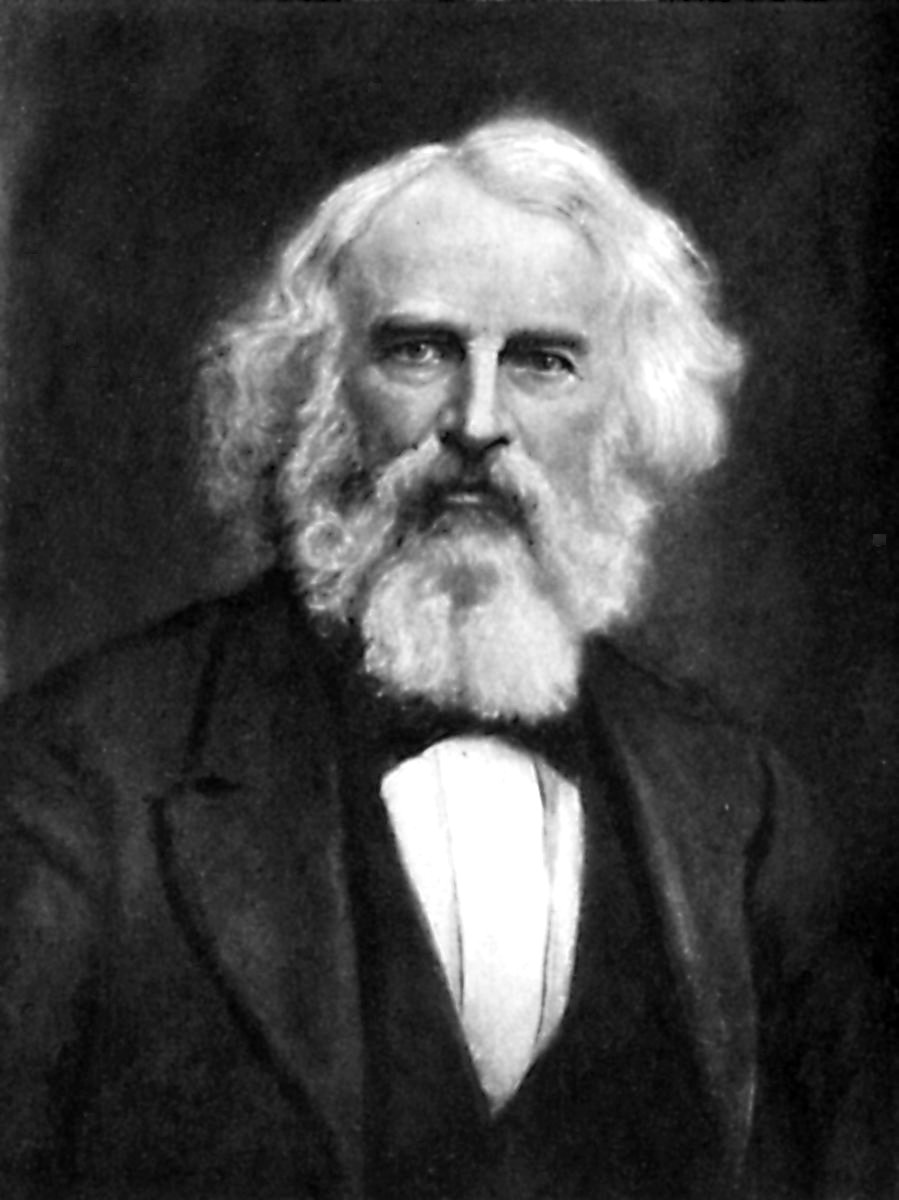 Henry Wadsworth Longfellow - Project Gutenberg eText 16786